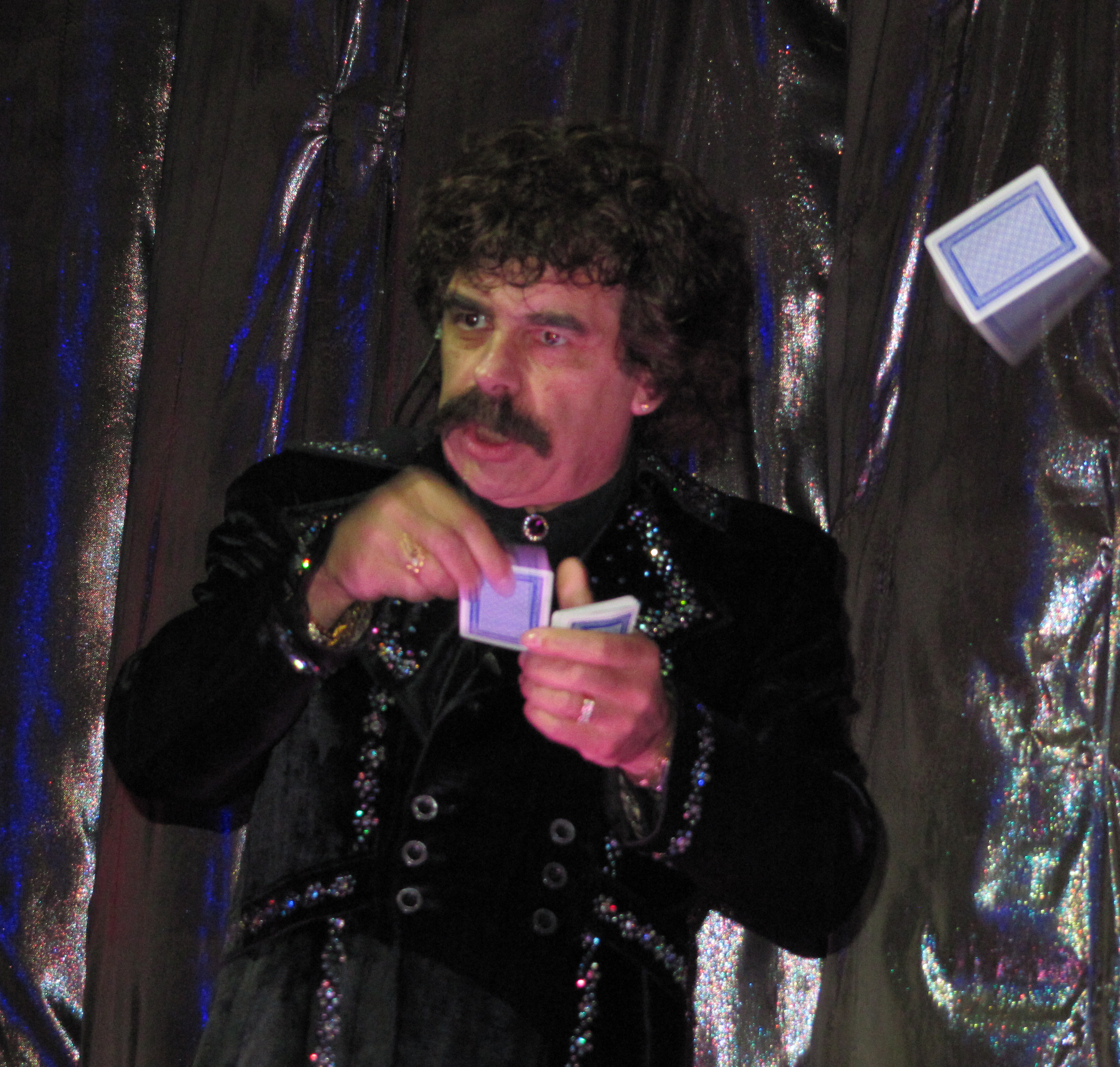 Steve Dacri performing at the Shimmer Showroom at the Las Vegas Hilton, April 2010 - Photograph by Patty Mooney